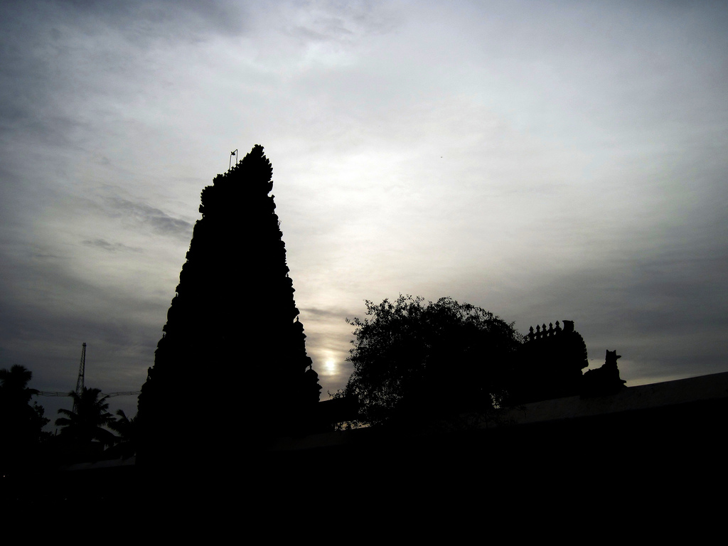 Thirumullaivoyal Masilamaneshwara Telmple